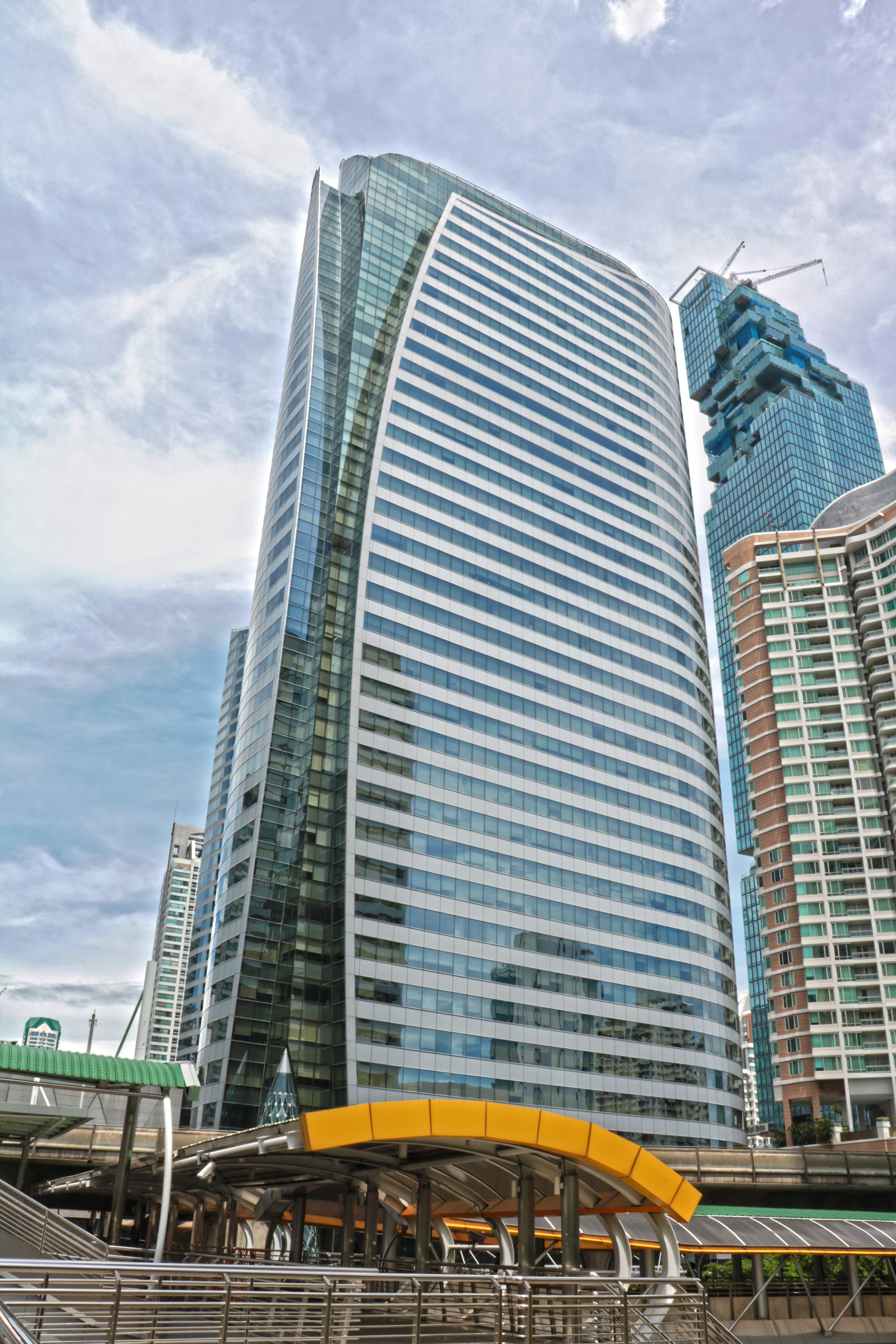 Sathorn Square at Bangkok